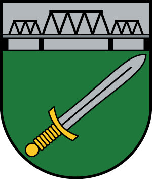 Coat of arms of Skrundas novads, Latvia